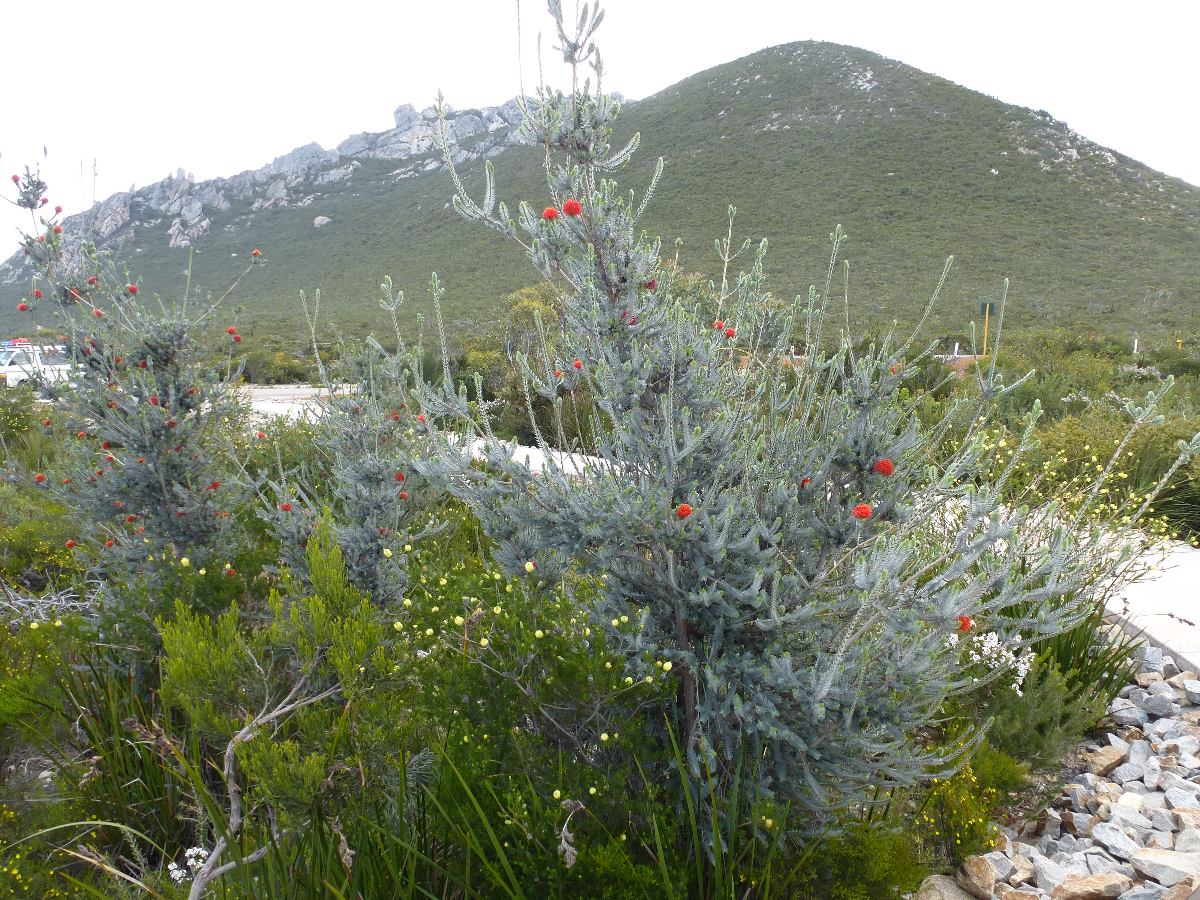 Regelia velutina growing near the East Mount Barren car park.